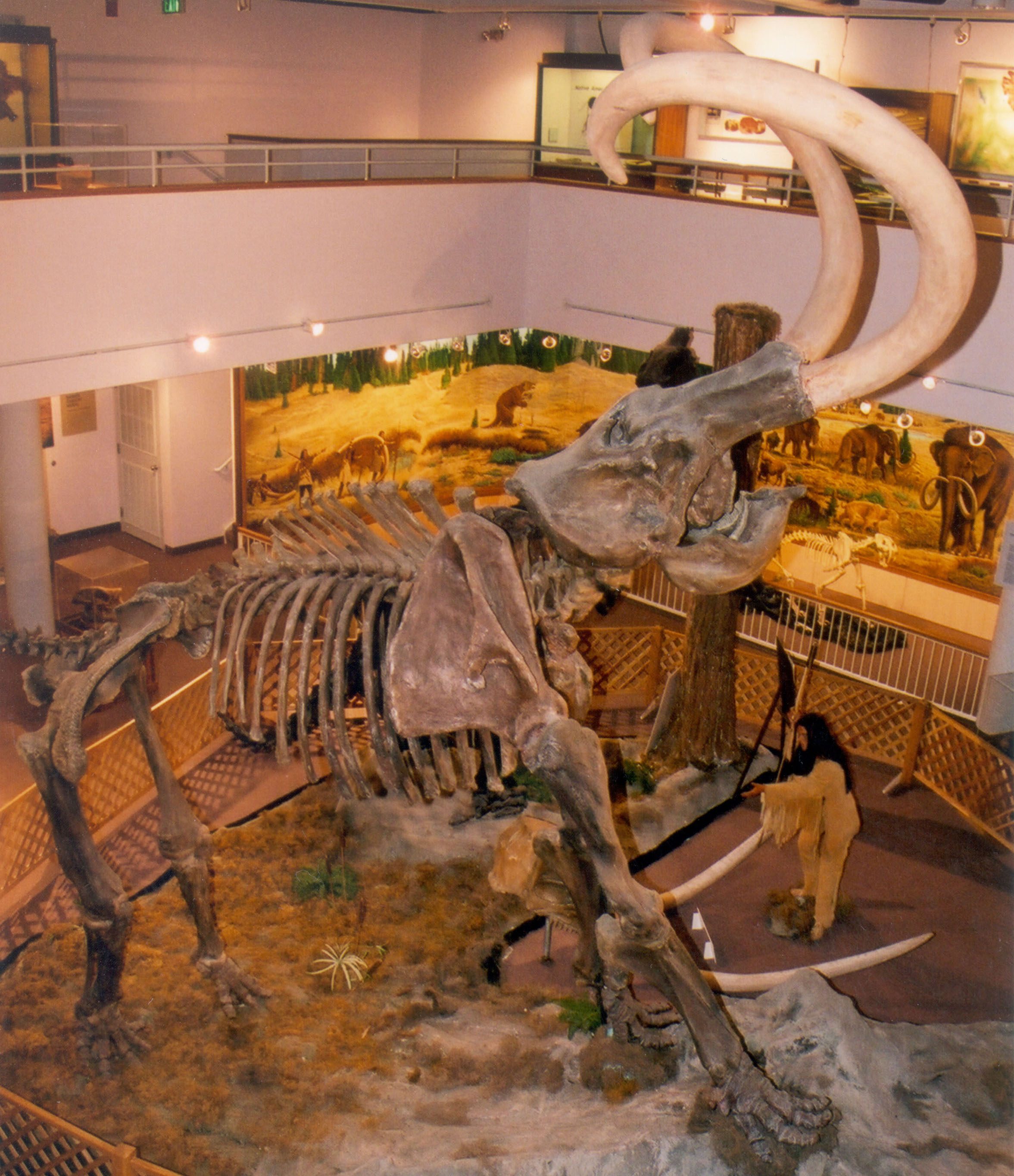 Columbian mammoth (Mammuthus columbi, cast of the "Huntington mammoth"), on display in the College of Eastern Utah Prehistoric Museum.